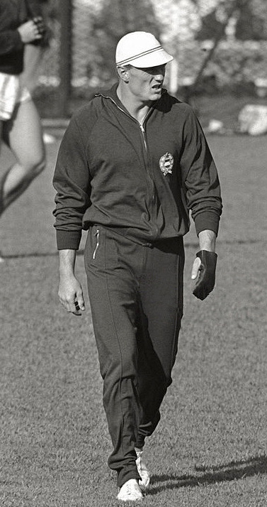 Zvonko Bezjak at the 1960 Olympics.